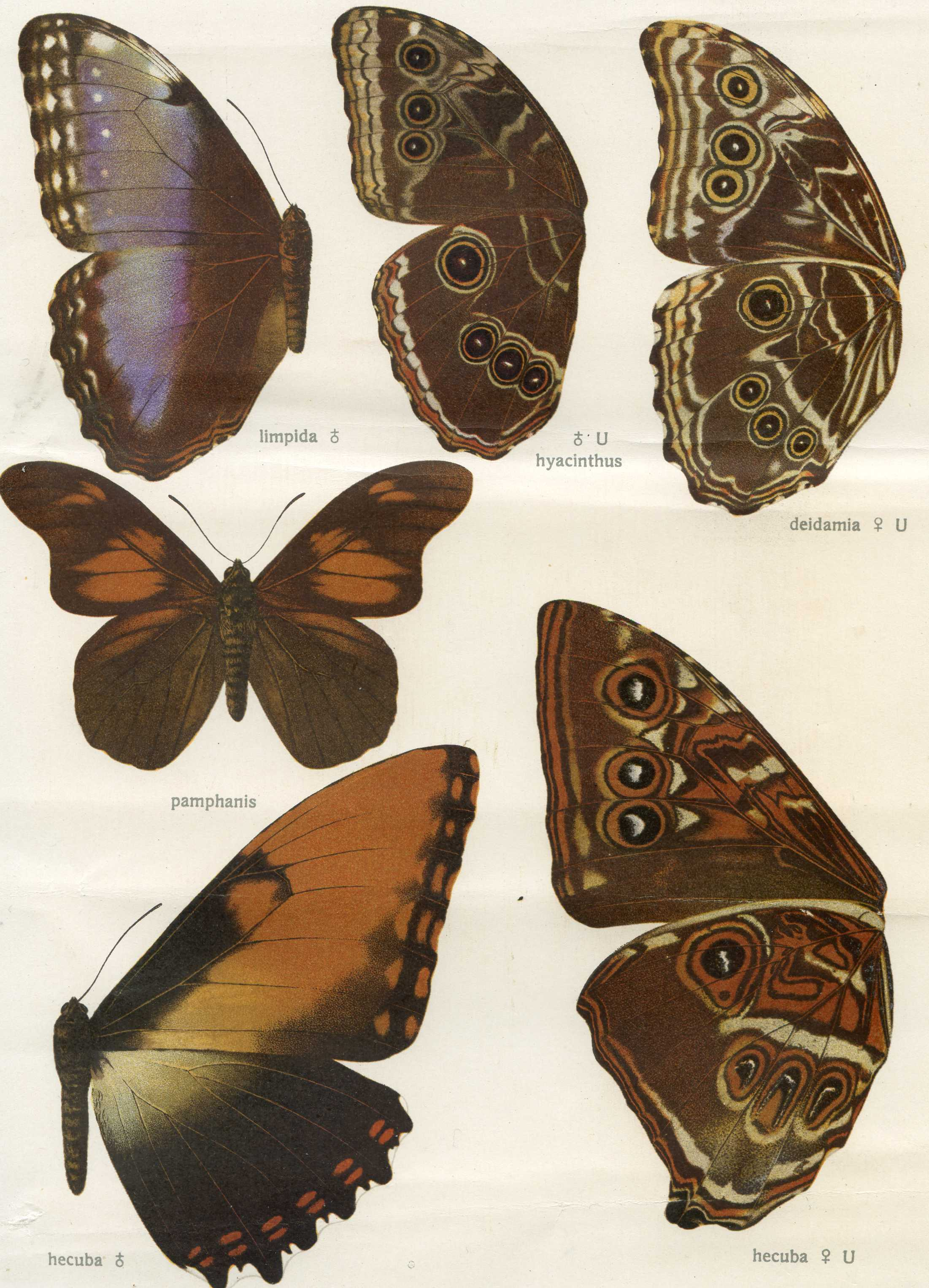 Plate from Seitz Macrolepidoptera of the World Fauna Americana